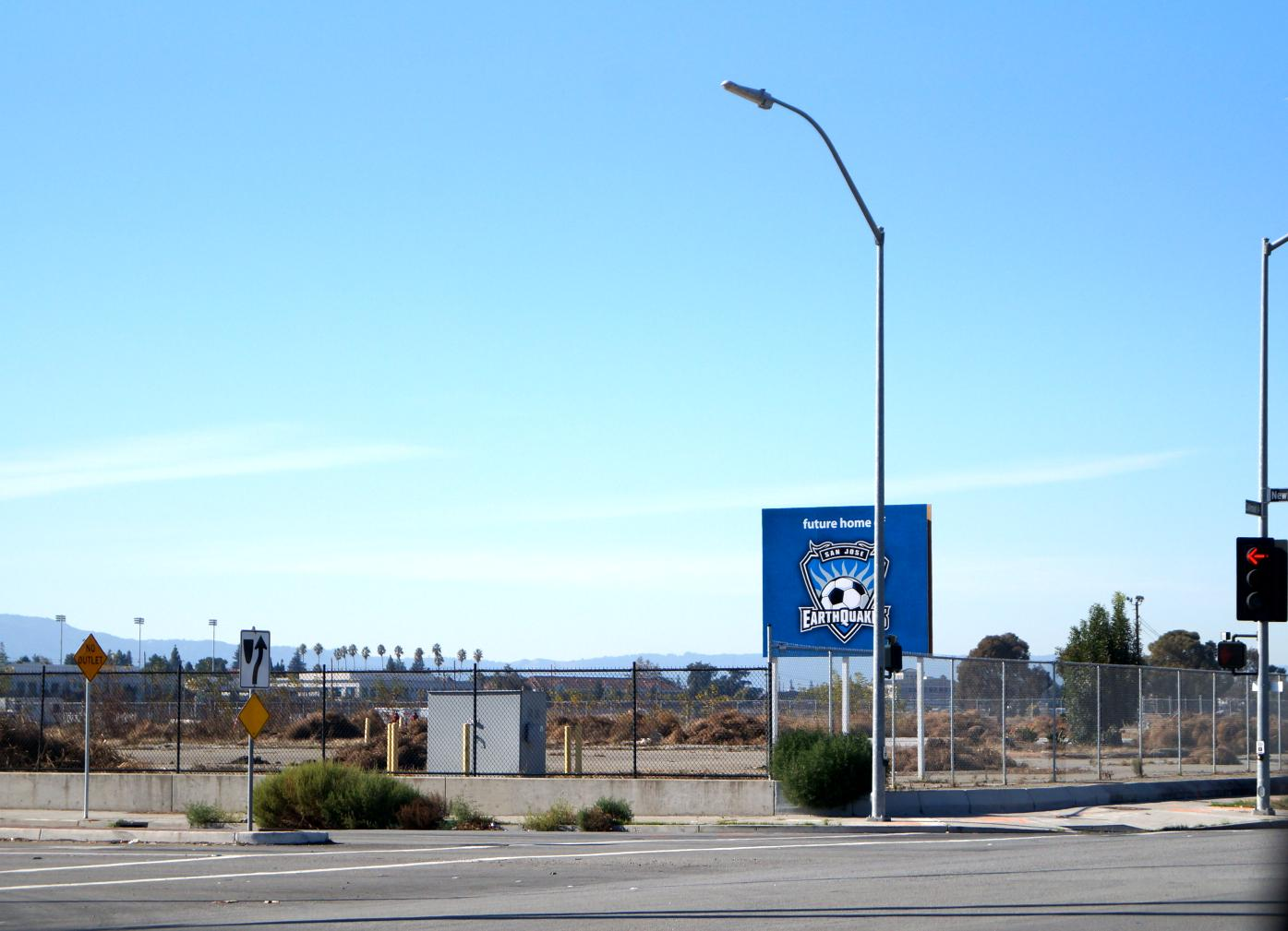 Future home of the SJ Quakes. Location